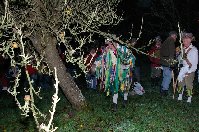 Anointing. The wassail continues with anointing the roots of the tree with Cider to put back some goodness into the soil. The wassail continues with some 306010